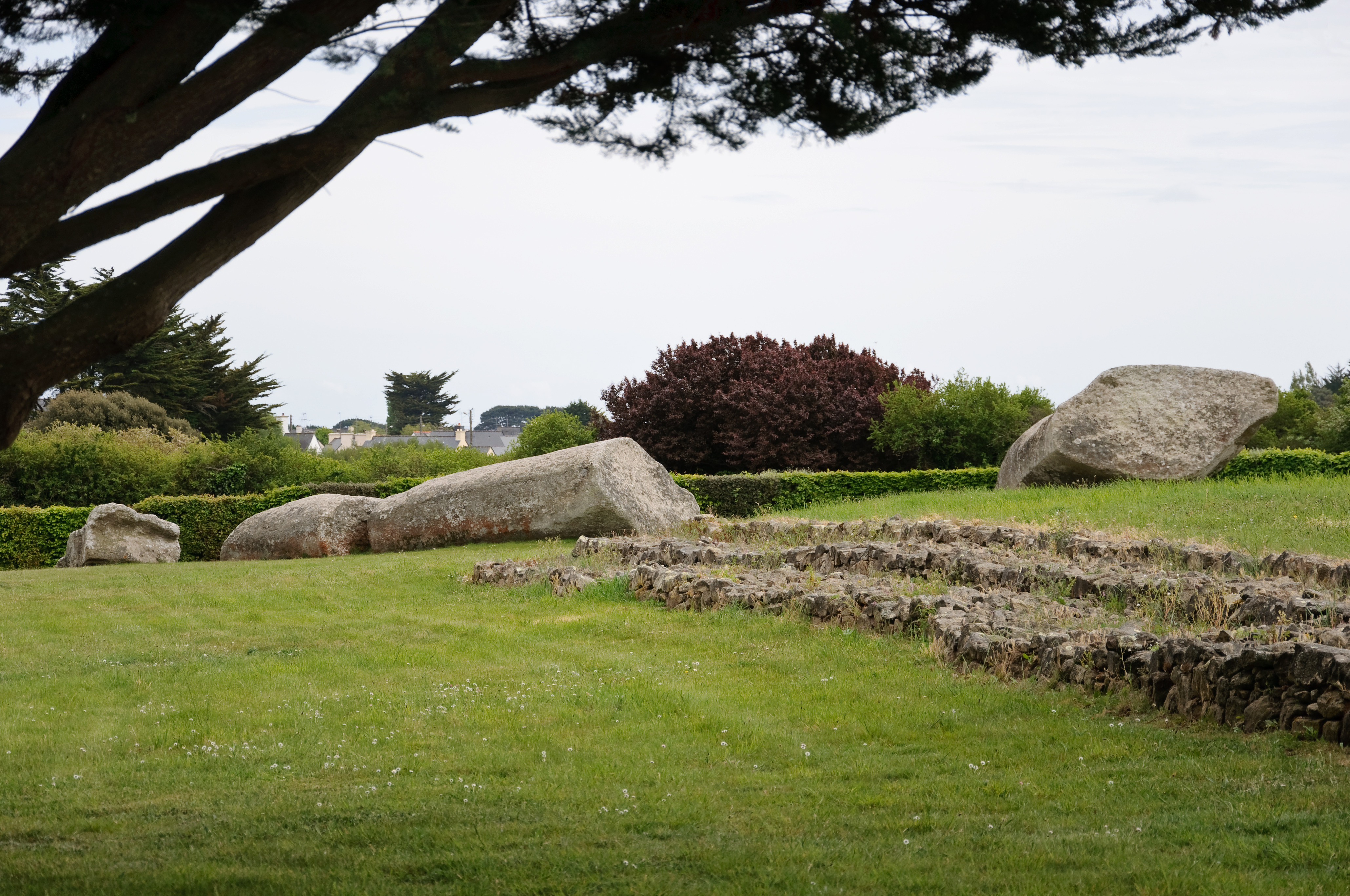 The broken Great Menhir, seen from the tumulus of Er Grah, in Locmariaquer (Morbihan, Brittany, France)